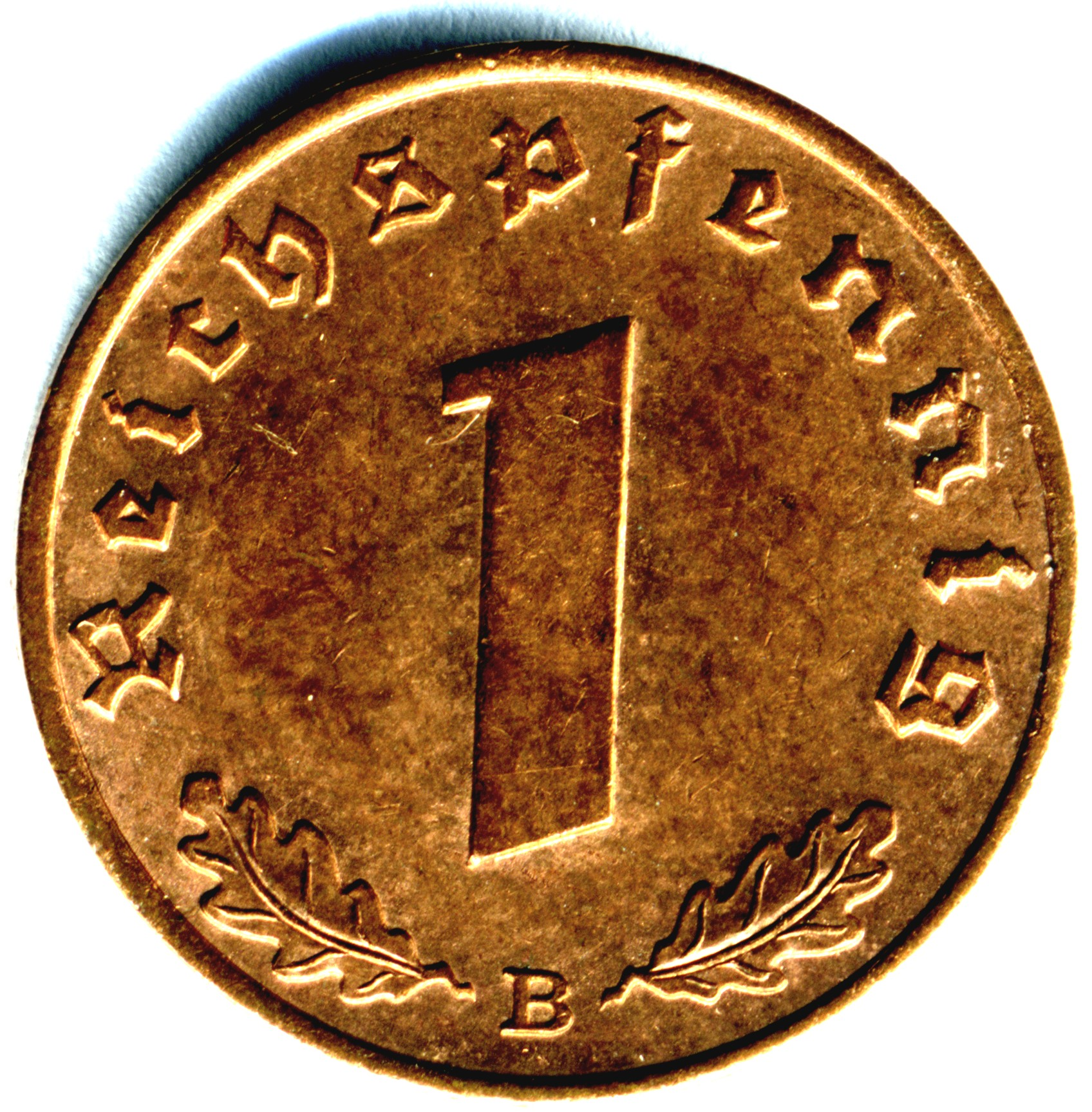 Nazi bronze 1 Reichspfennig coin, Reverse with value and mint mark